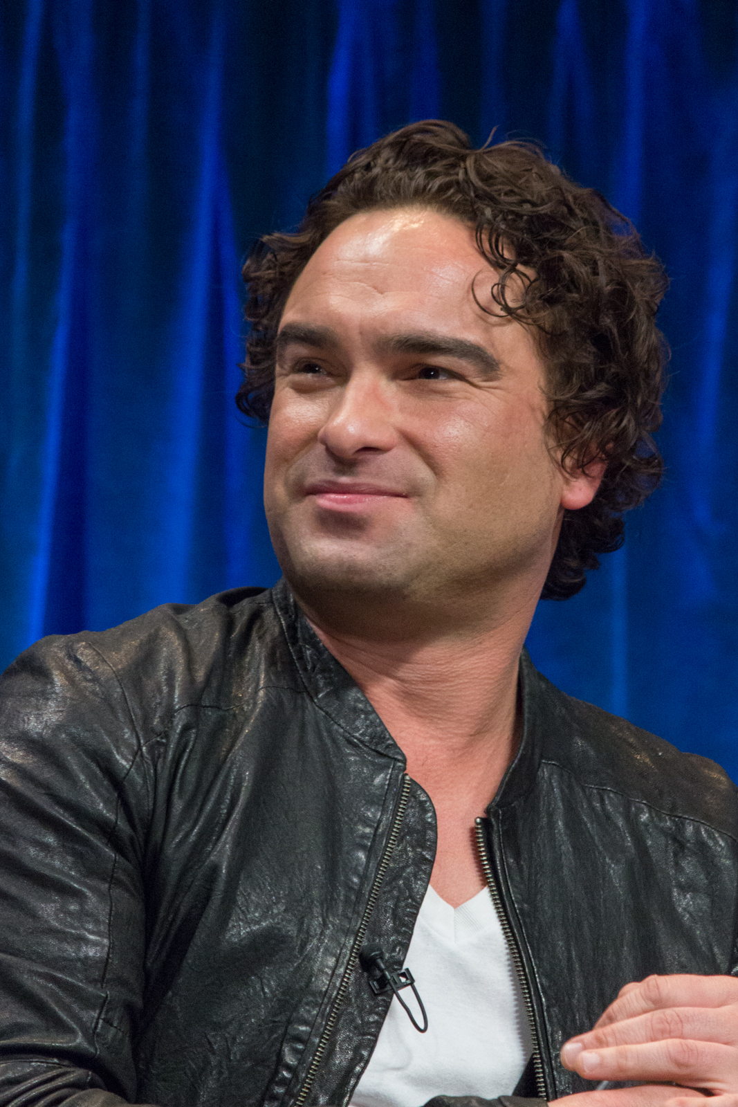 Johnny Galecki at PaleyFest 2013 for the TV show "Big Bang Theory"